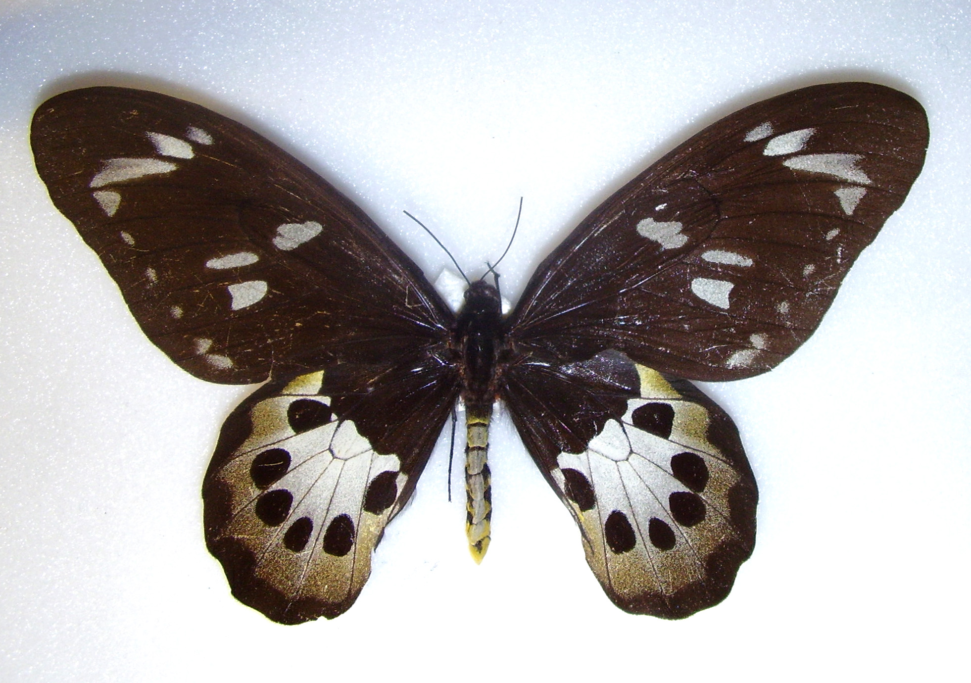 Ornithoptera tithonus Haan Female, upperside. Lake Anggi,Arfak Mountains, West Irian 19 May 1977